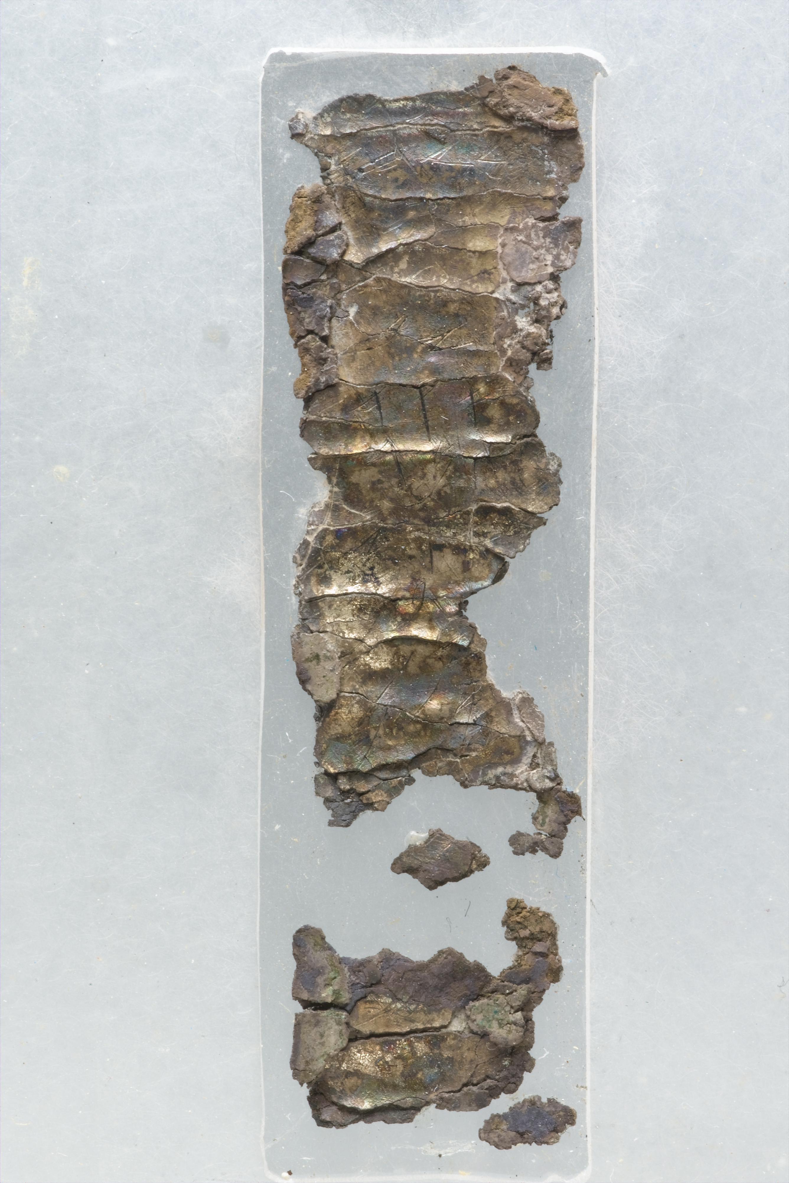 Scan of the KH2 Ketef Hinnom Silver Scroll, the oldest artifact containing text from the Hebrew Bible.